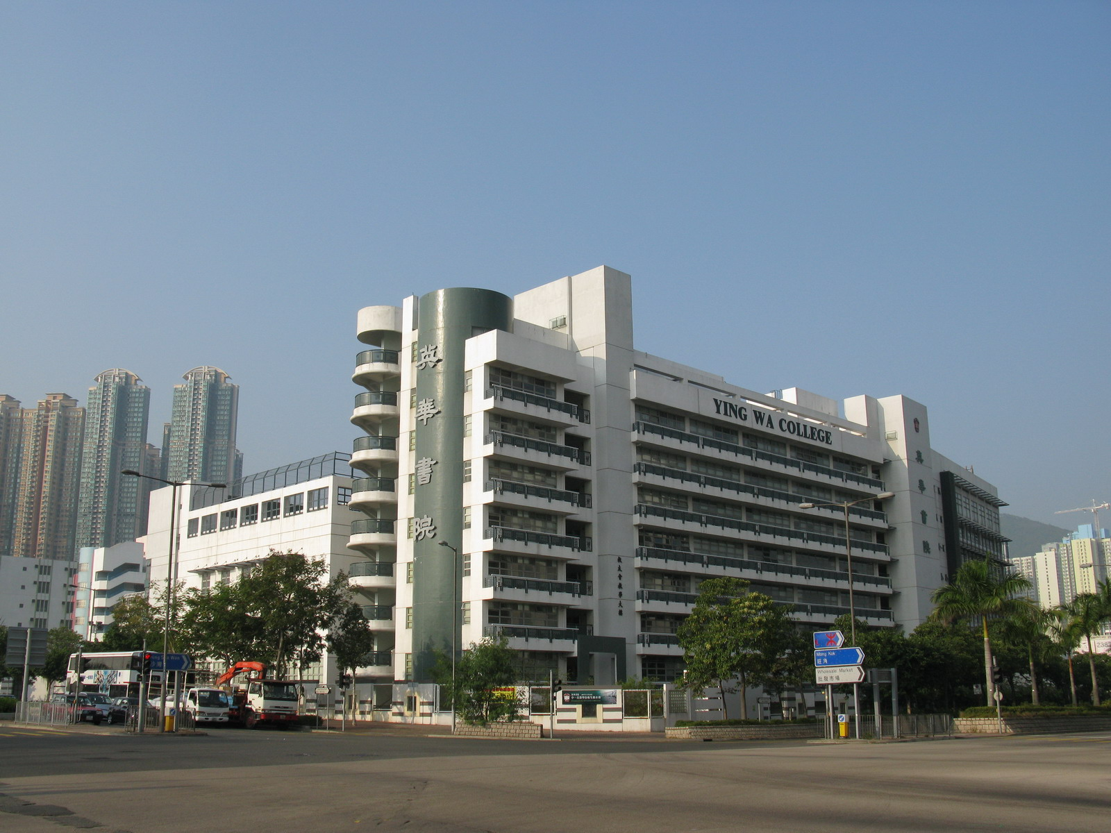 英華書院 Ying Wa College